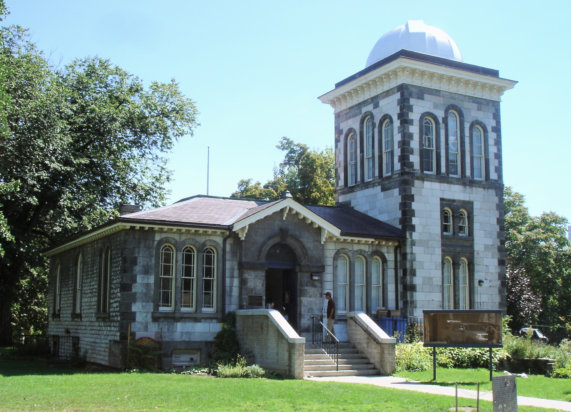 Toronto Magnetic Observatory, seen from WNW, cropped and color corrected